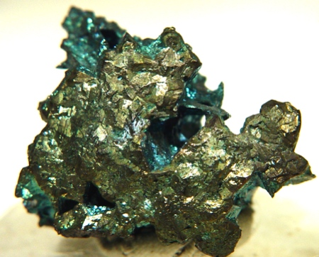 Bornite Locality: Zhezqazghan Oblysy (Dzezkazgan Oblast'; Dzhezkazgan Oblast'; Djezkazgan Oblast'; Jezkazgan Oblast'), Kazakhstan (Locality at ) A bornite seam filling showing crystallization all around and flashy blue irridescent faces around its periphery. Very pretty and interesting! 3.5 x 2.5 x 1.5 cm